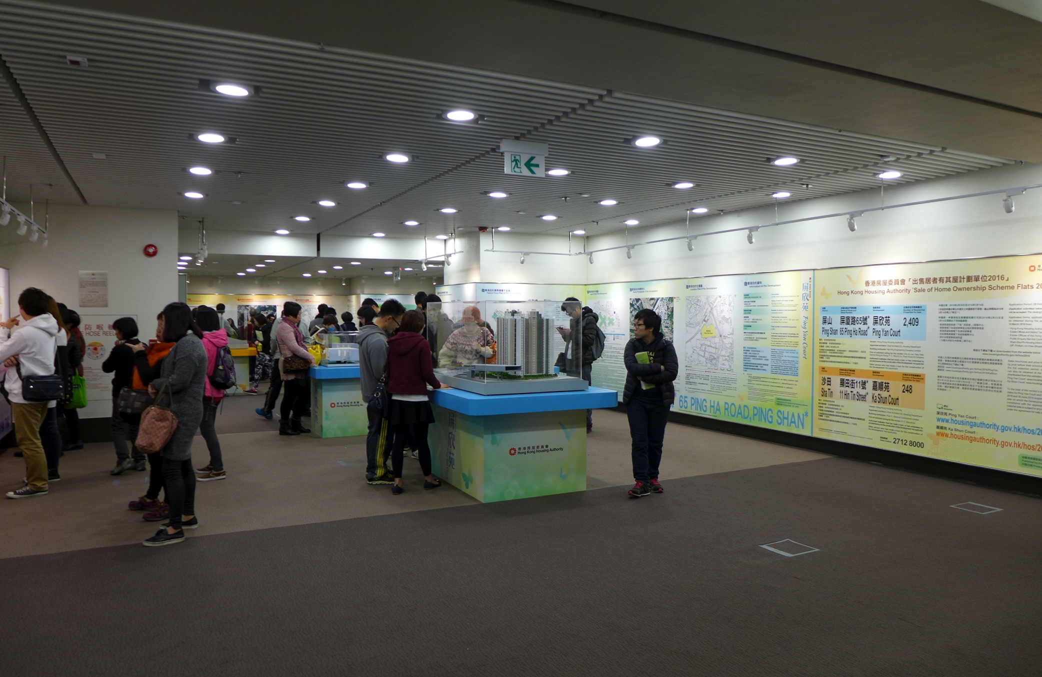 Home Ownership Scheme Sales Gallery